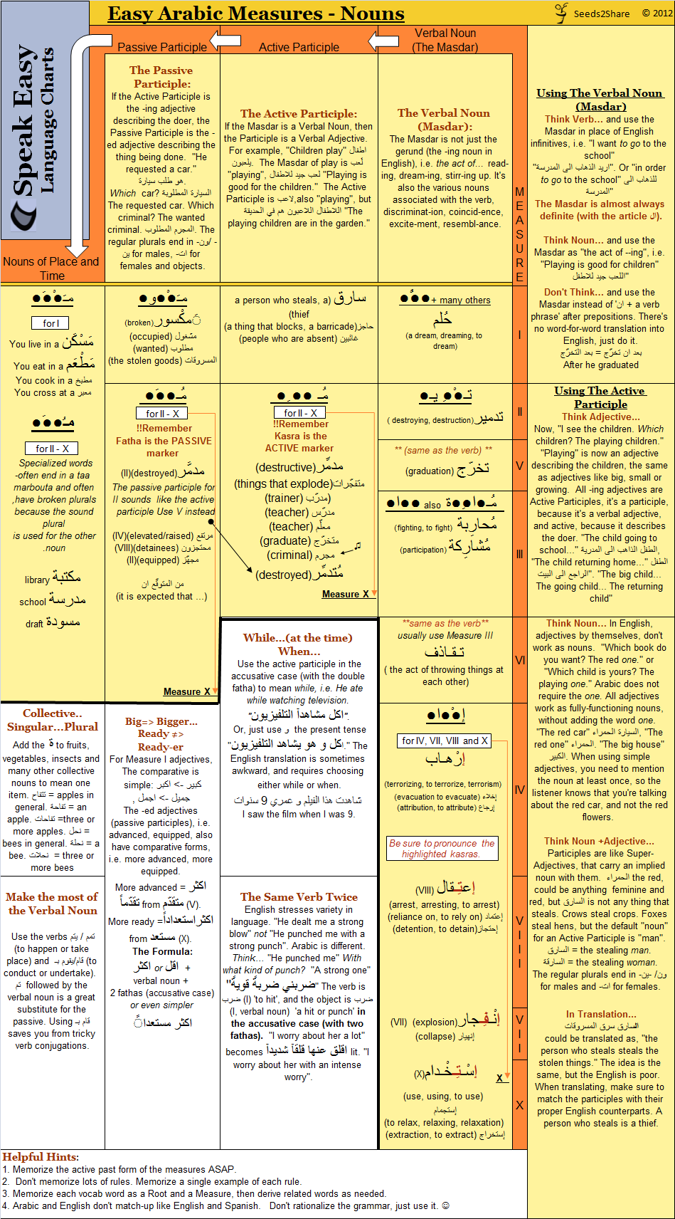 Chart explaining Arabic nouns in plain English.